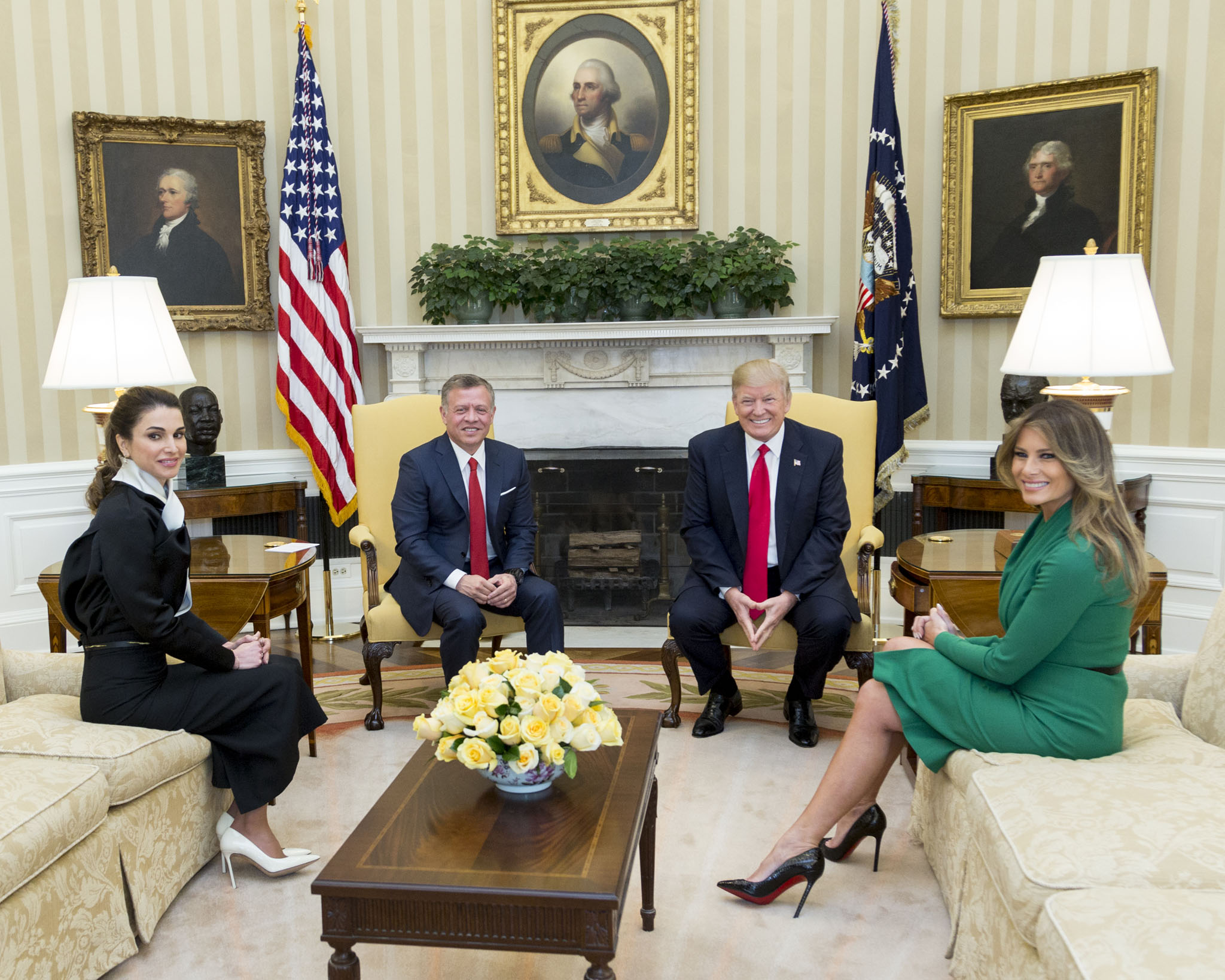 President Donald Trump and First Lady Melania Trump meet with King Abdullah II and Queen Rania of Jordan, Wednesday, April 5, 2017, in the Oval Office of the White House in Washington, D.C. (Official White House Photo by Shealah Craighead) First Lady Melania Trump in Hervé Pierre [1]